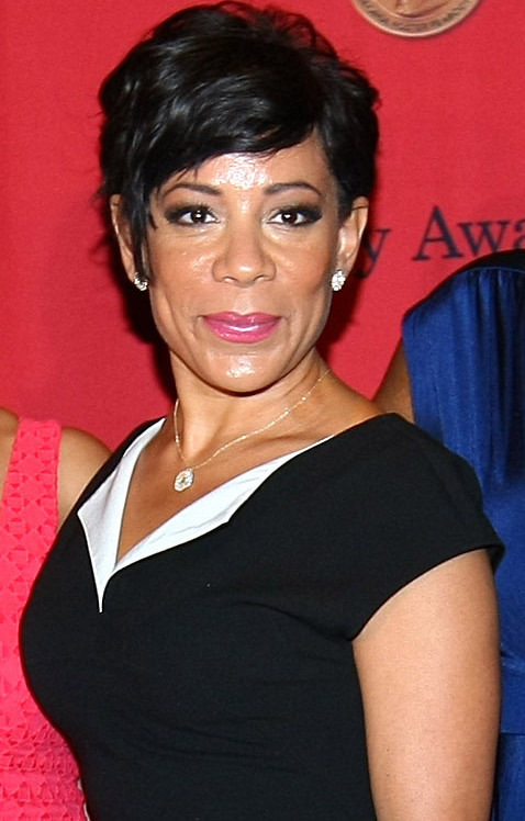 Danielle Brooks, Dascha Polanco, Selenis Leyva, Adrienne C. Moore and Natasha Lyonne with the Peabody Award for "Orange is the New Black."